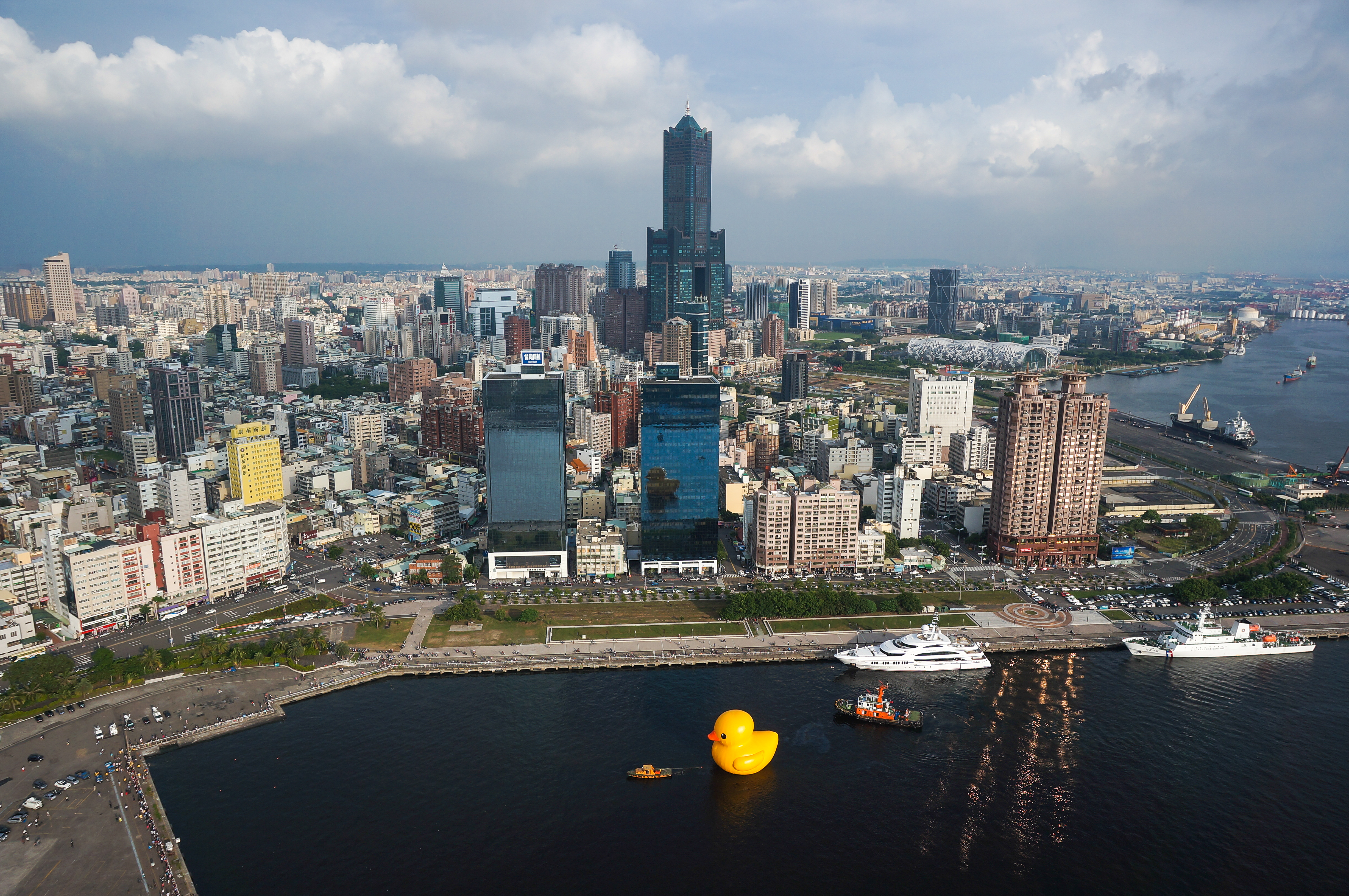 Aerial view of Kaohsiung, Taiwan cityscape taken in 2013